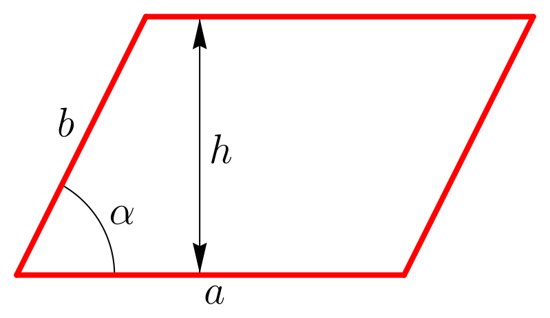 A parallellogram